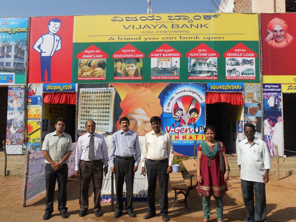 General Manager visiting th Vijaya Bank stall at Siddaganga Mutt Mela